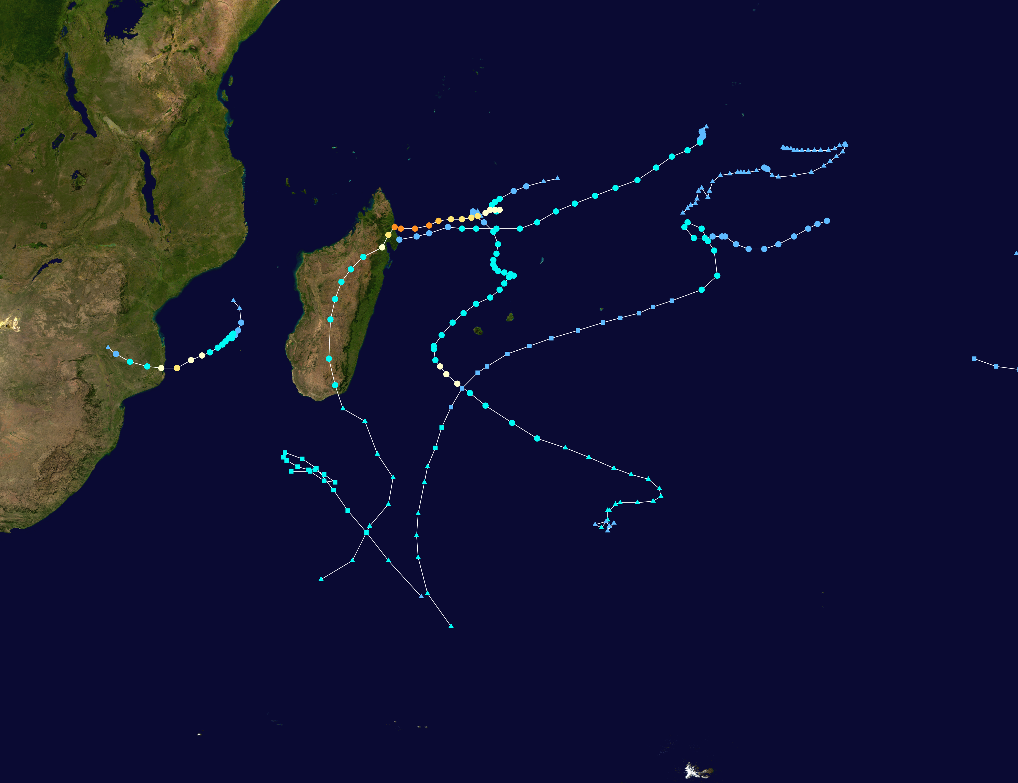 This map shows the tracks of all tropical cyclones in the 2016-17 South-West Indian Ocean cyclone season. The points show the location of each storm at 6-hour intervals. The colour represents the storm's maximum sustained wind speeds as classified in the Saffir-Simpson Hurricane Scale (see below), and the shape of the data points represent the type of the storm. Saffir–Simpson scale Tropical depression≤38 mph≤62 km/h Category 3111–129 mph178–208 km/h Tropical storm39–73 mph63–118 km/h Category 4130–156 mph209–251 km/h Category 174–95 mph119–153 km/h Category 5≥157 mph≥252 km/h Category 296–110 mph154–177 km/h Unknown Storm type Tropical cyclone Subtropical cyclone Extratropical cyclone / Remnant low / Tropical disturbance / Monsoon depression